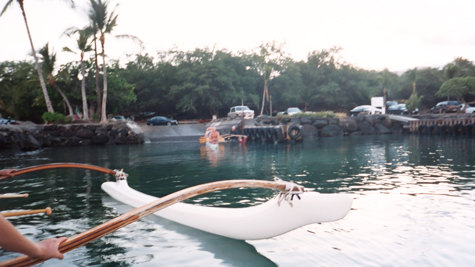 Photo by Kanoa Withington. Loading canoes at the boat ramp near the Kawaihae Canoe Club.